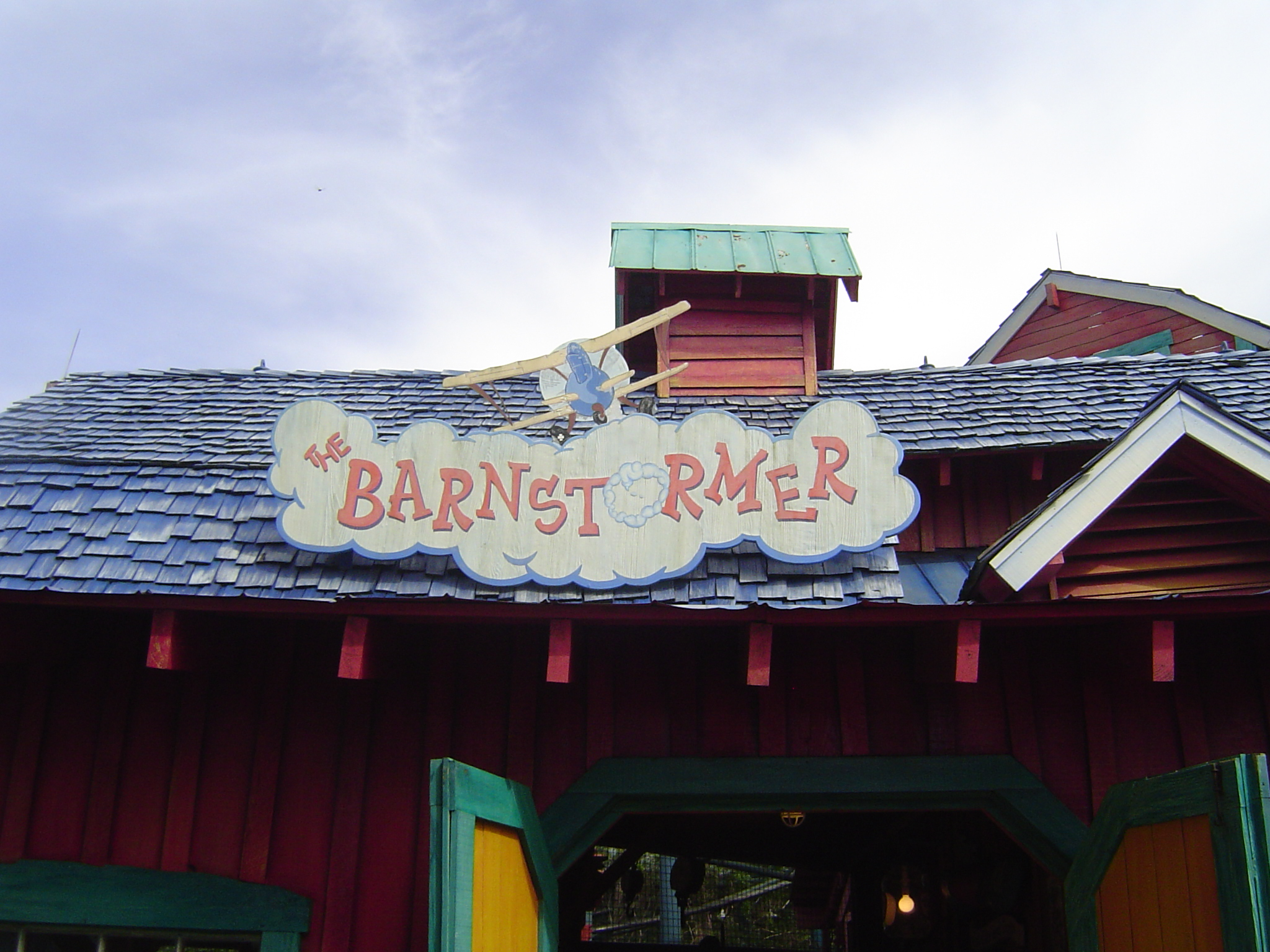 The Barnstormer